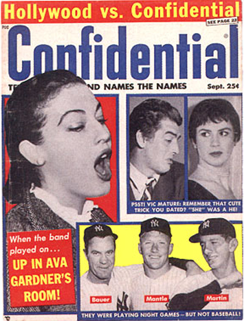 Confidential Magazine cover September (year unknown)